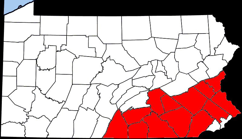 altered version of (Public domain map courtesy of The General Libraries, The University of Texas at Austin, modified to show counties relevant to article. Released under GFDL. See Wikipedia:U.S. county maps.)